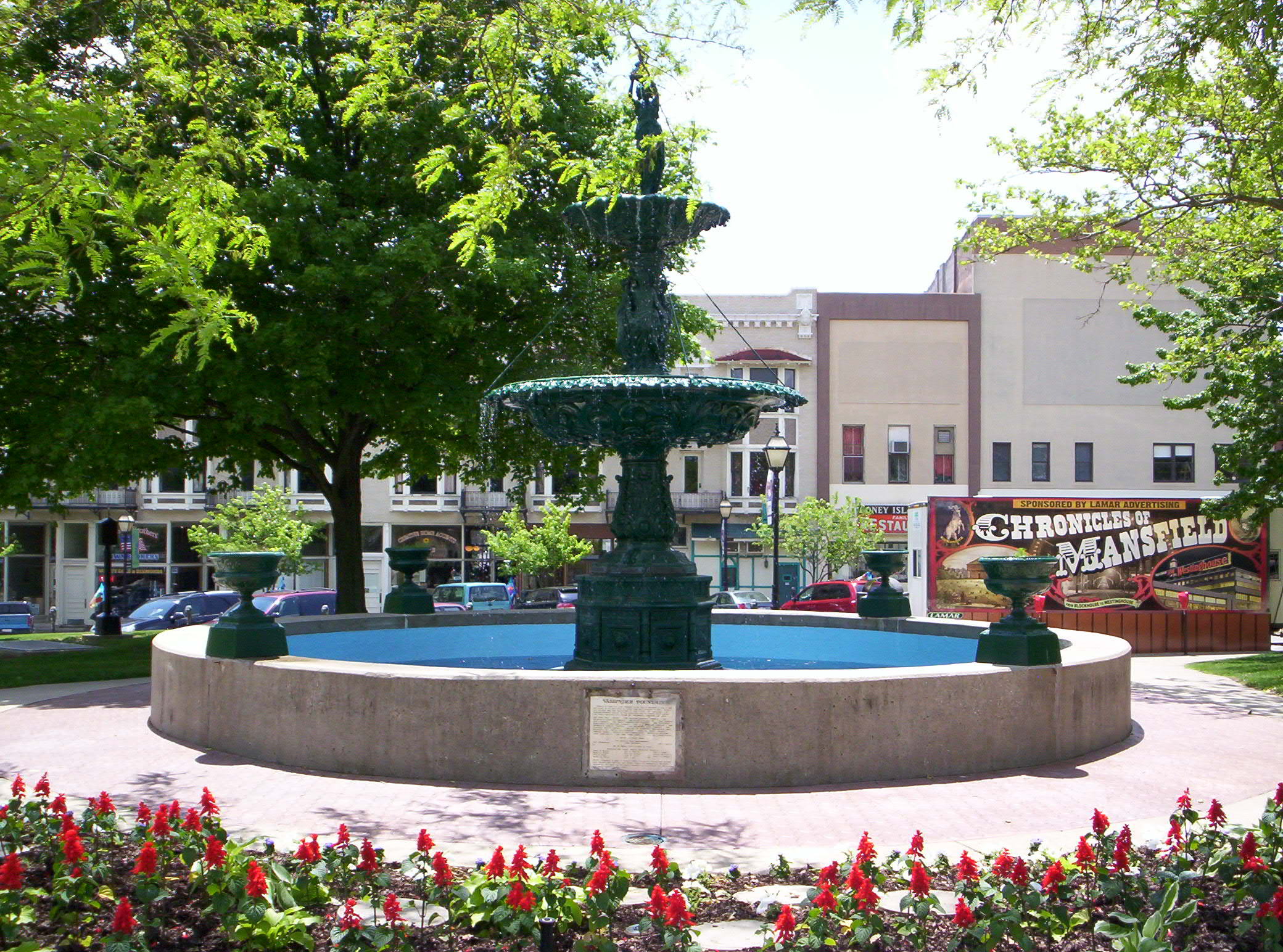 A view of the Vasbinder Fountain at Central Park on the Public Square in downtown Mansfield, Ohio.